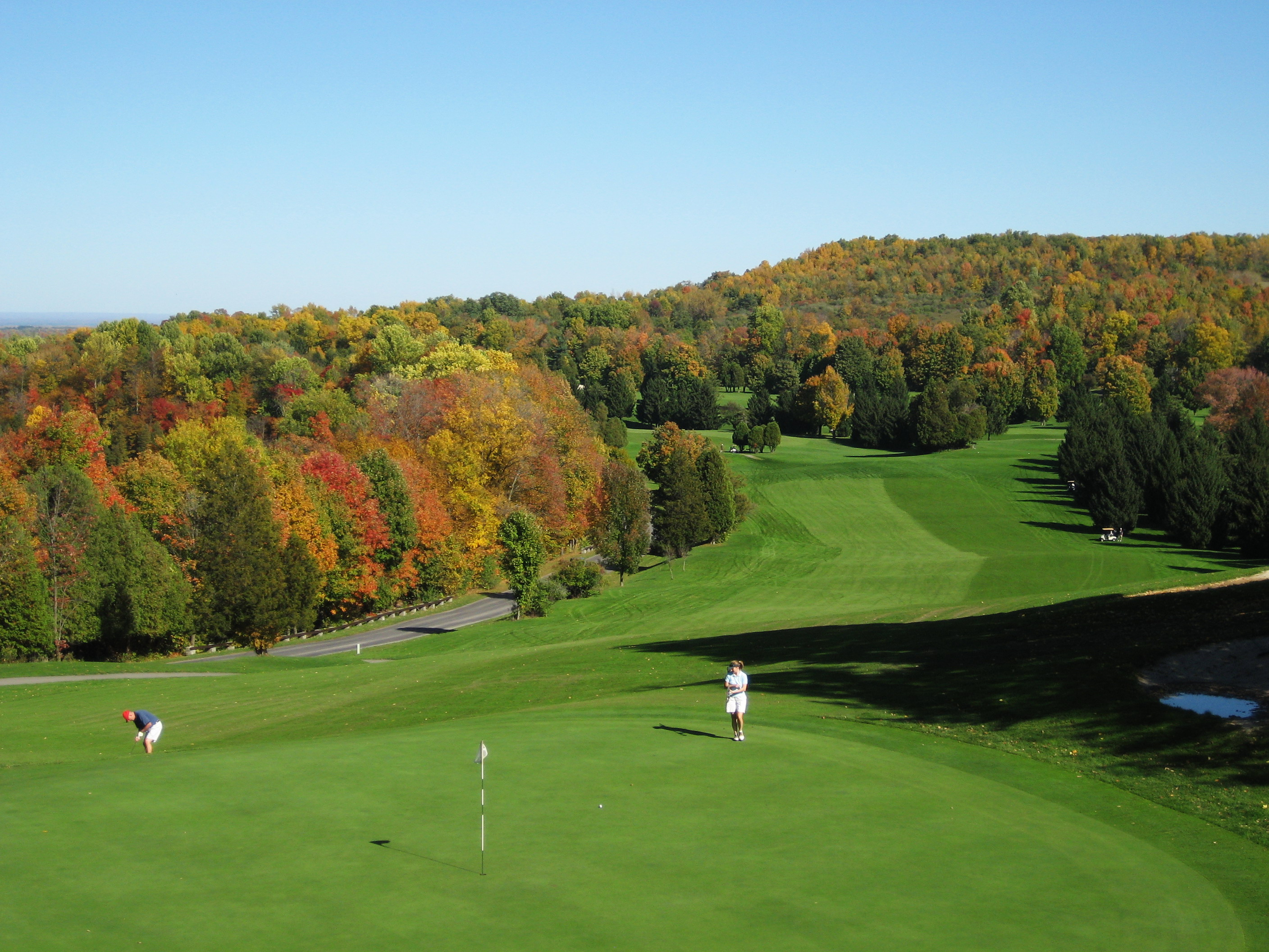 Golf course at Green Lakes State Park, Fayetteville, New York.